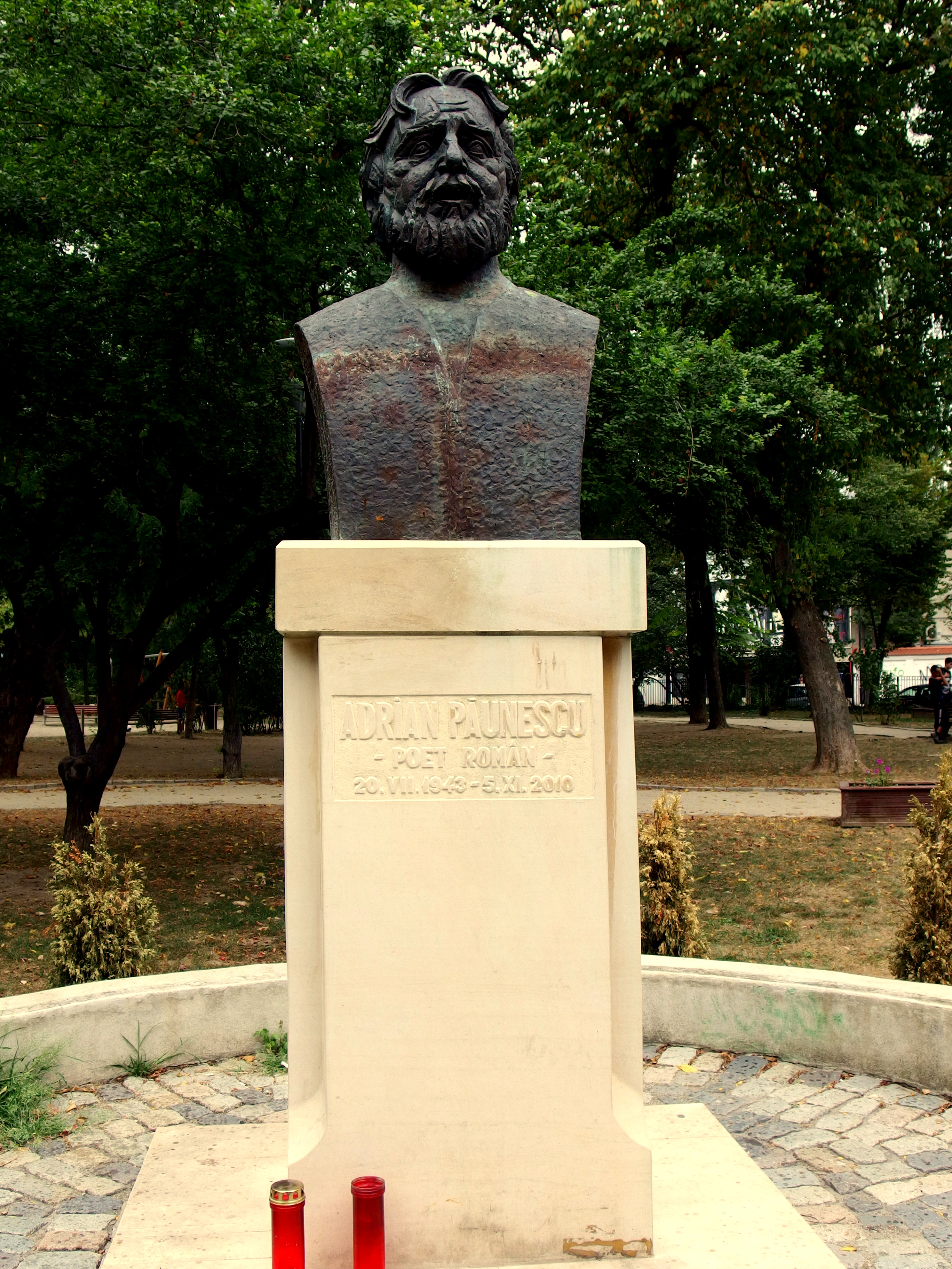 2014-08-17 in Bucharest.